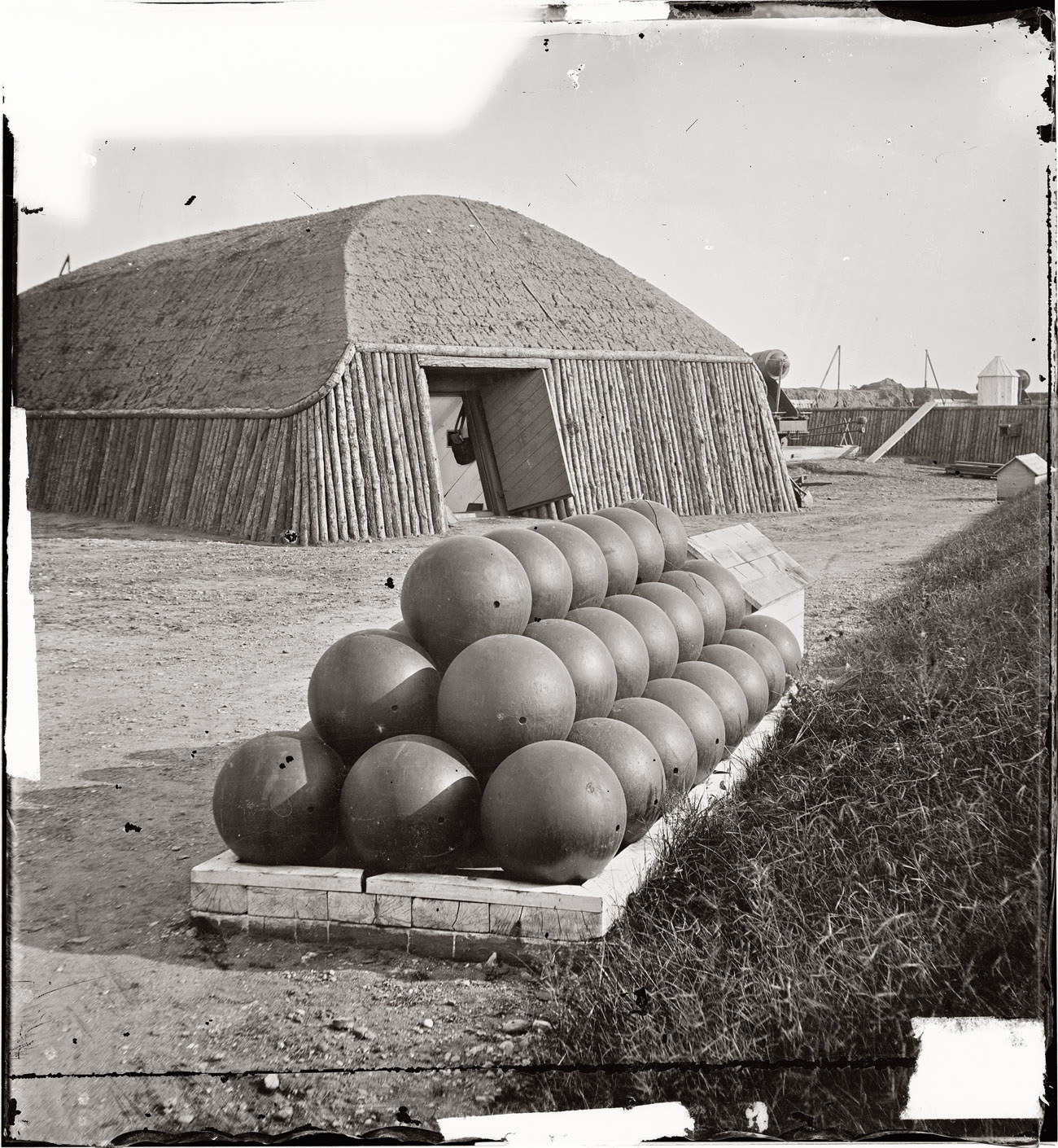 Photograph shows ammunition stacked up outside of the magazine at Battery Rodgers in Alexandria, Virginia, during the American Civil War.